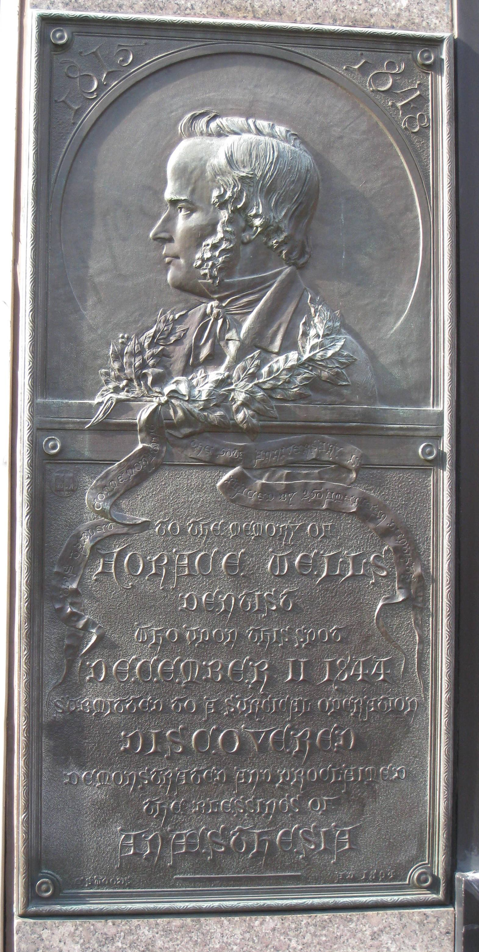 Horace Wells plaque, Hartford, Connecticut, USA. Commemorates an American dentist who pioneered the use of anaesthesia in dentistry. This plaque was created in 1894; due to its age, it is not subject to copyright restrictions.